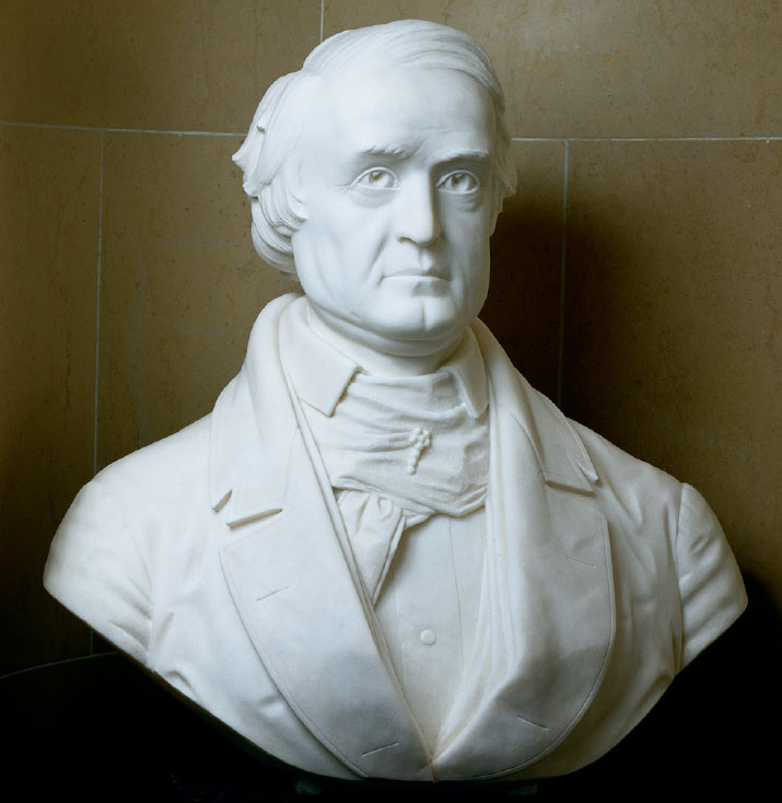 Sculpture of U.S. Vice President John C. Breckinridge